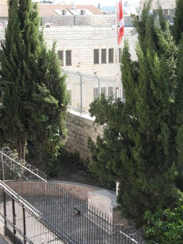 hospitalerim muristan jerusalem - Old Jerusalem, Flag of the Order of Malta on Wilhelm II Memorial, in Muristan Street, marking the location of the crusader headquarters of the Order of the Knights of St. John.